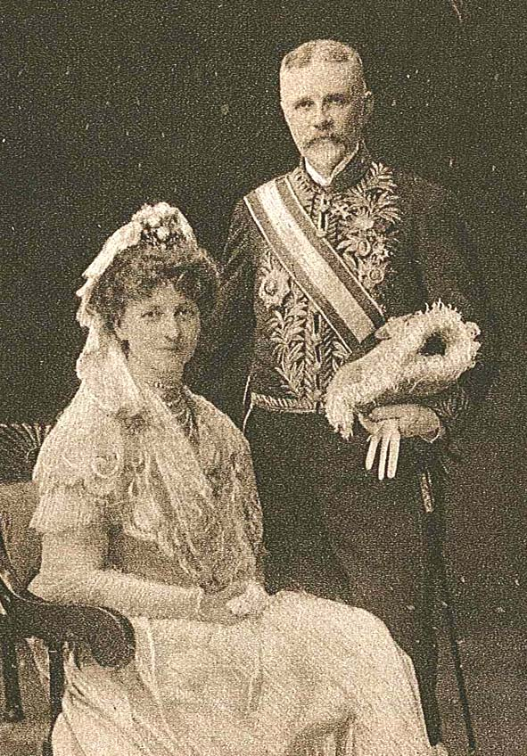 Robert Sager (1850-1919), Swedish diplomat and courtier, with his wife, Marie Moltke Huitfelt.